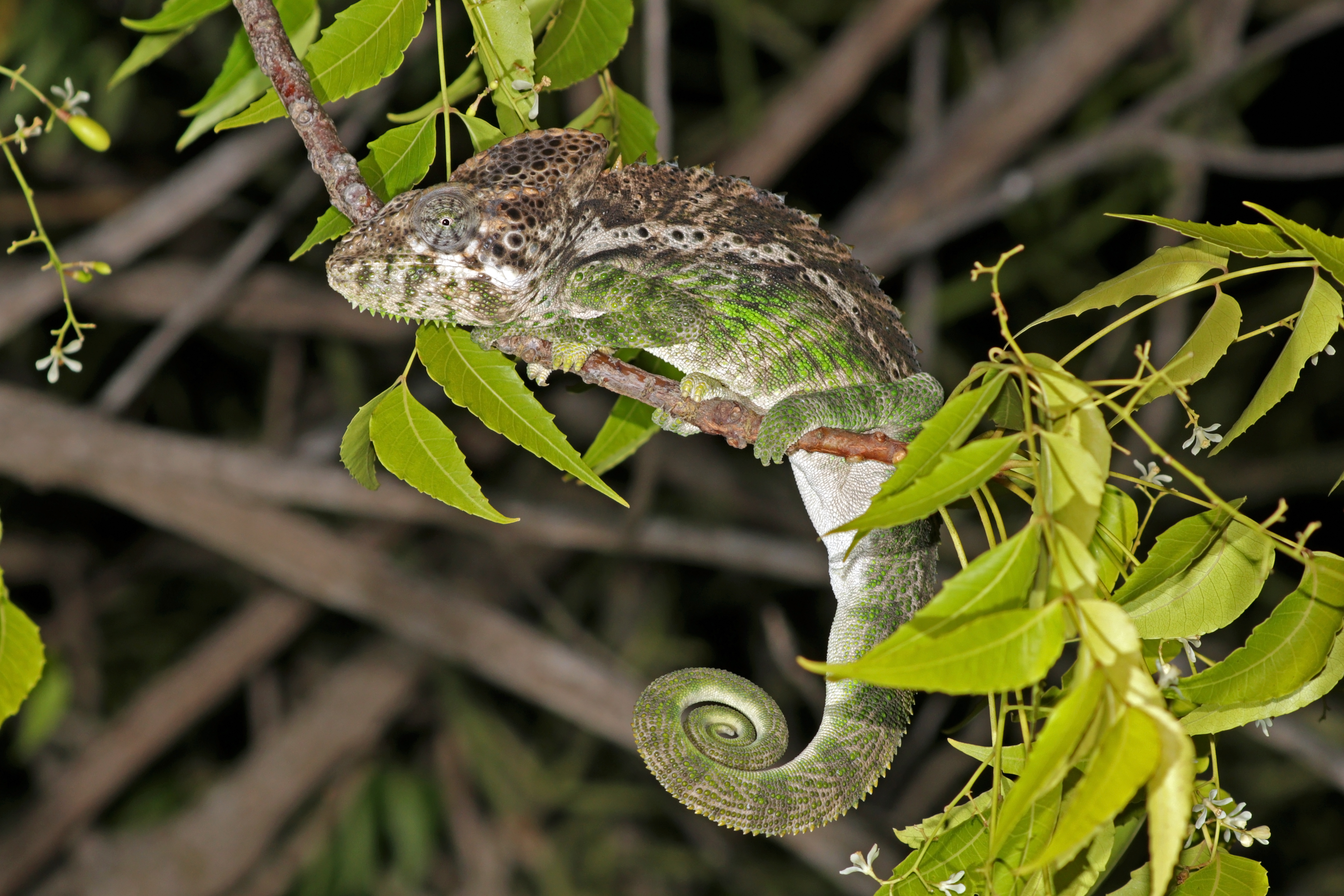 Warty chameleon (Furcifer verrucosus) male, Arboretum d'Antsokay, Madagascar